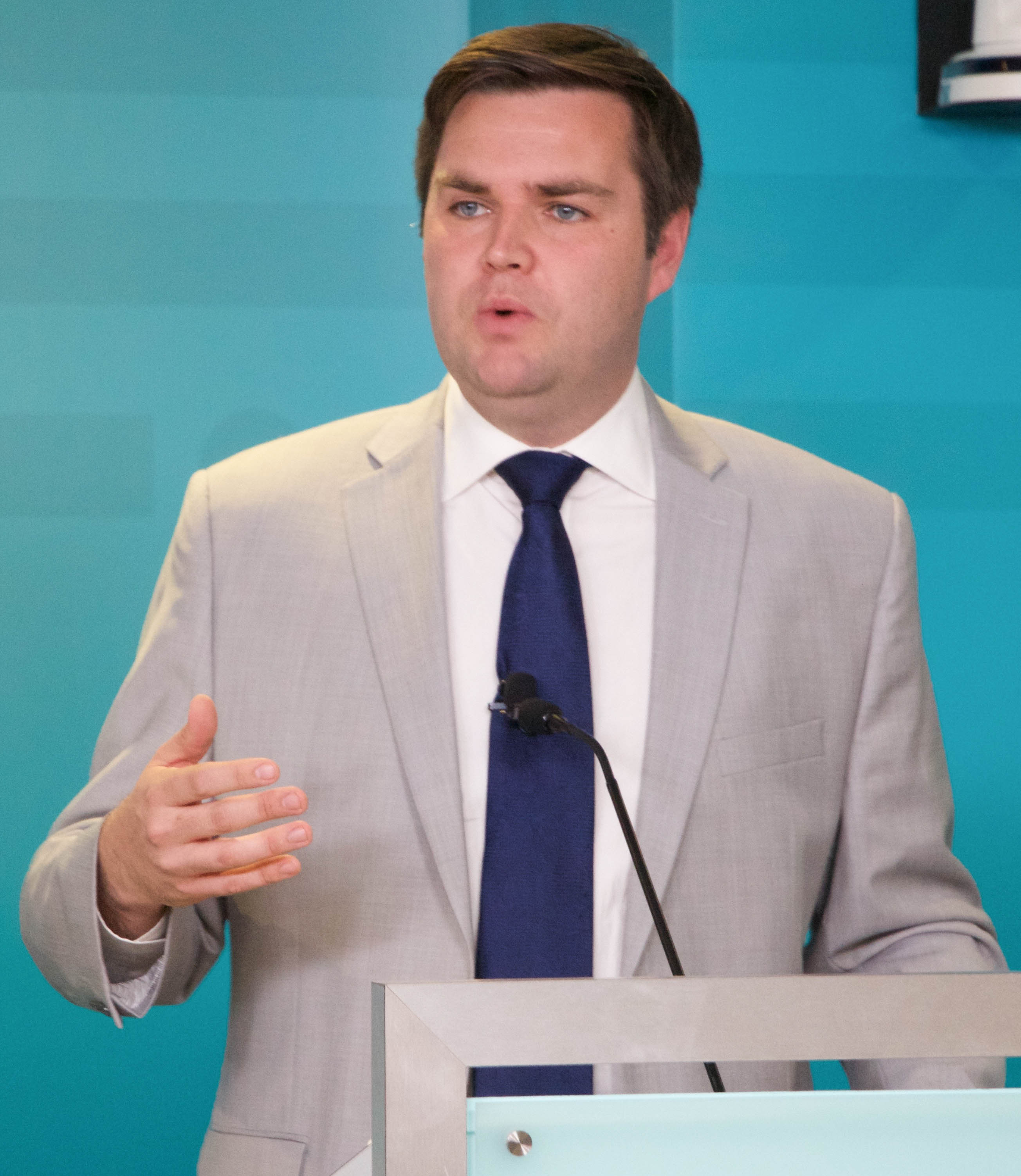 J.D. Vance, Author, Hillbilly Elegy